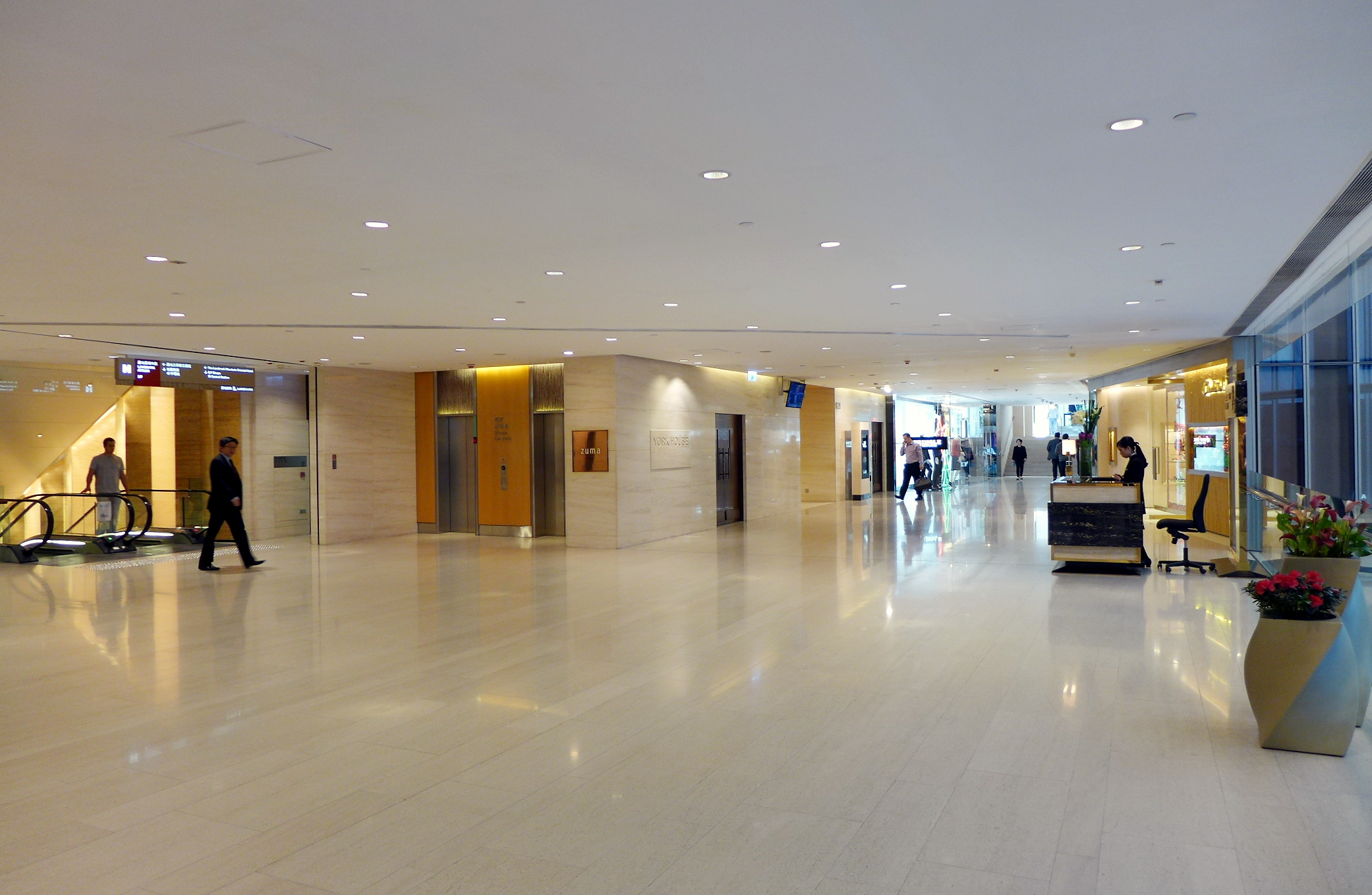 York House Lobby